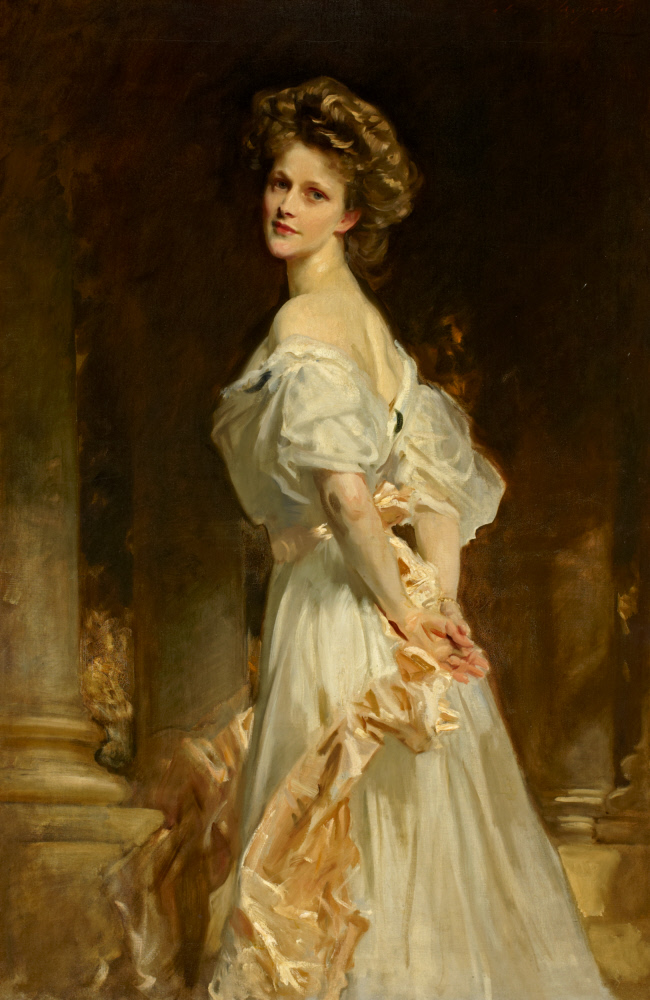 Portrait of Mrs. Waldorf Astor, nee Nancy Langhorne (1879-1964).